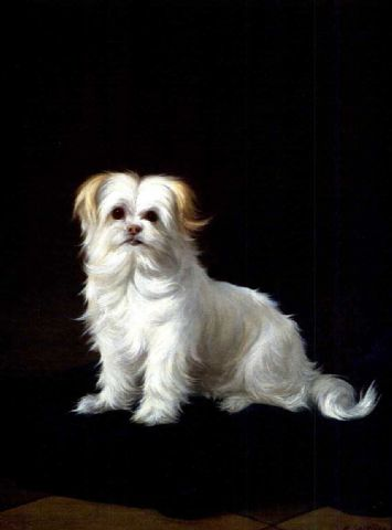 A Maltese Terrier